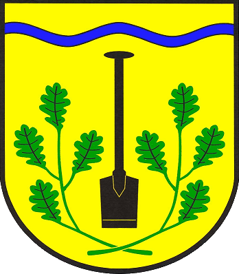 Coat of arms of the municipality Hollingstedt in Dithmarschen, Schleswig-Holstein, Germany.